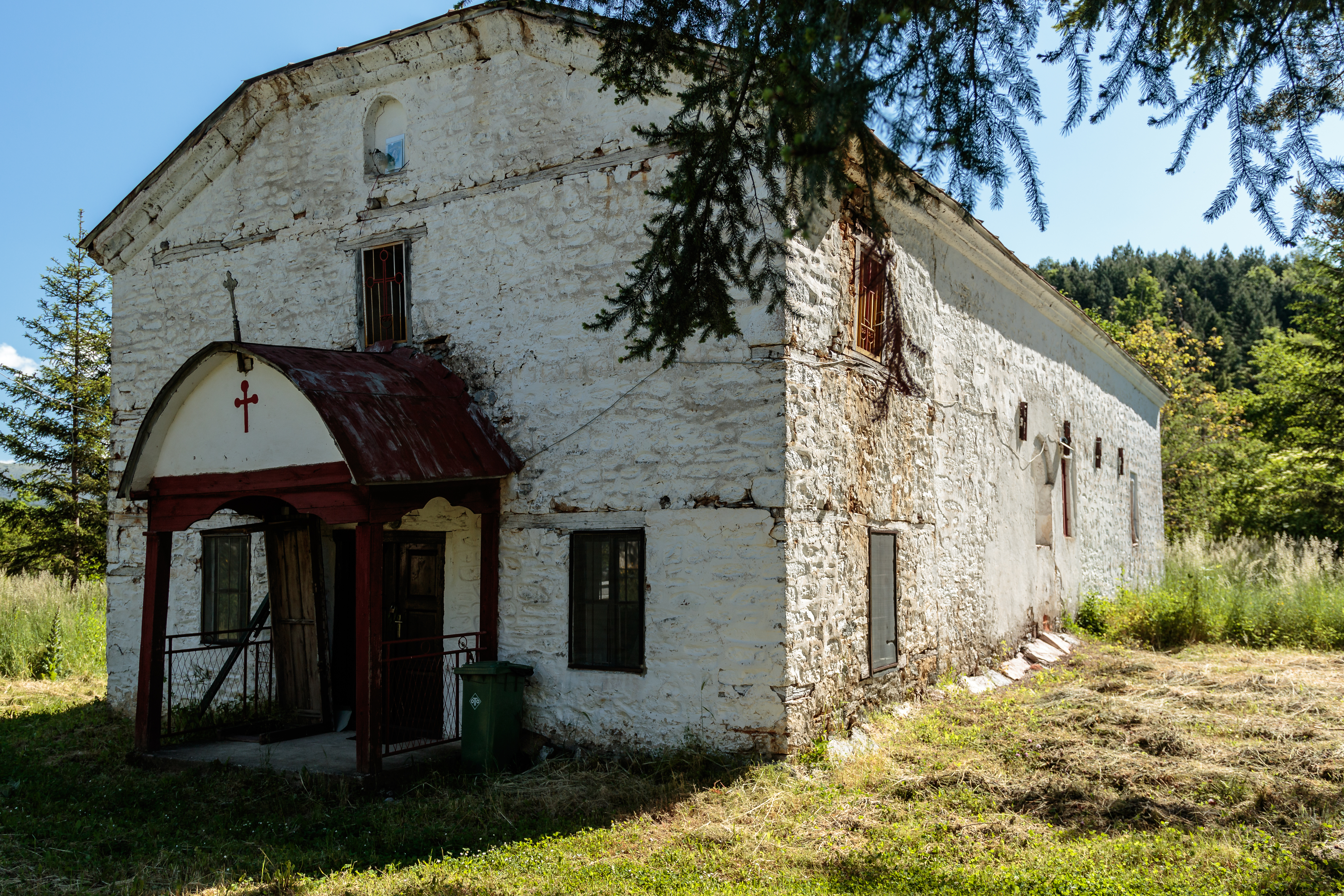 View of the St. Elijah Church in the village Velmevci